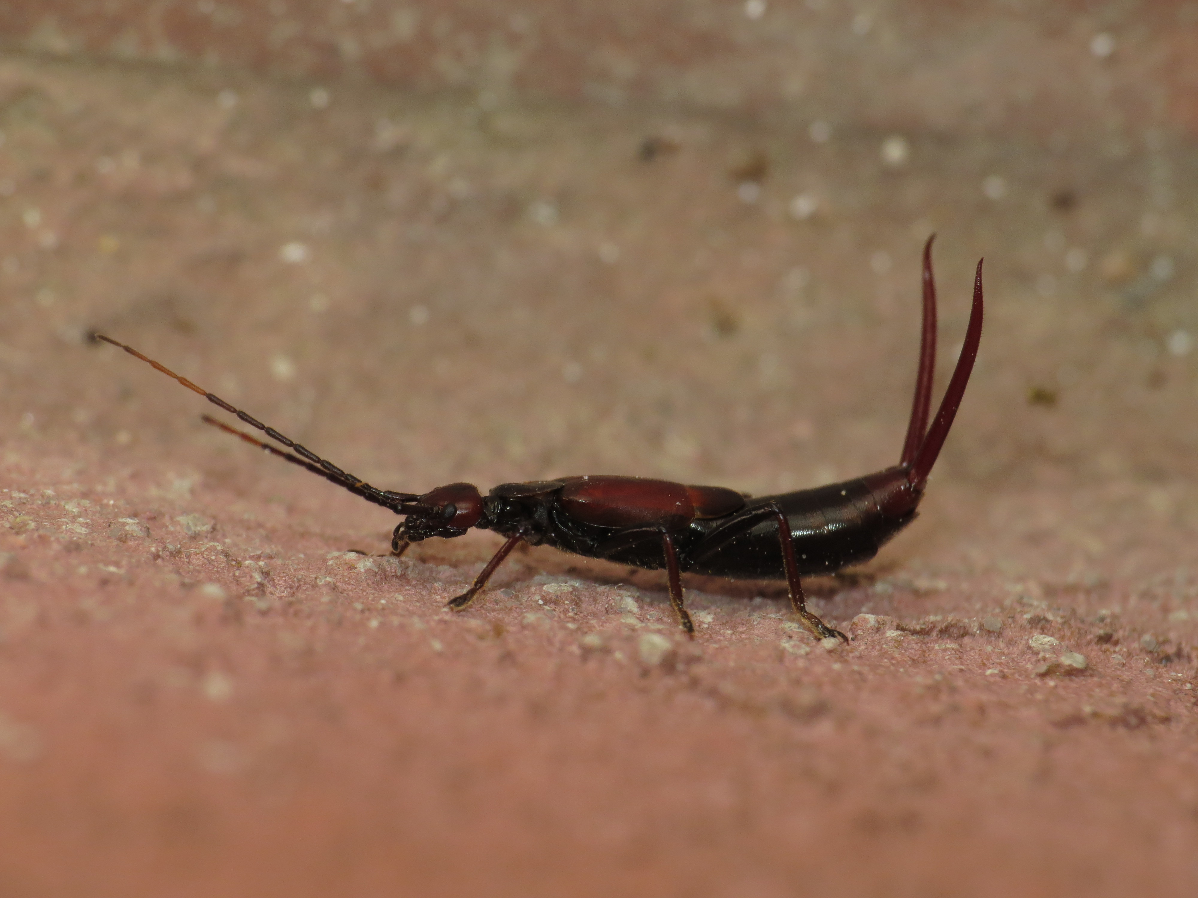 Timomenus komarowi (Semenov 1901), female, found with dead male on hotel balcony, Pyeongchang, South Korea, 11 October 2014